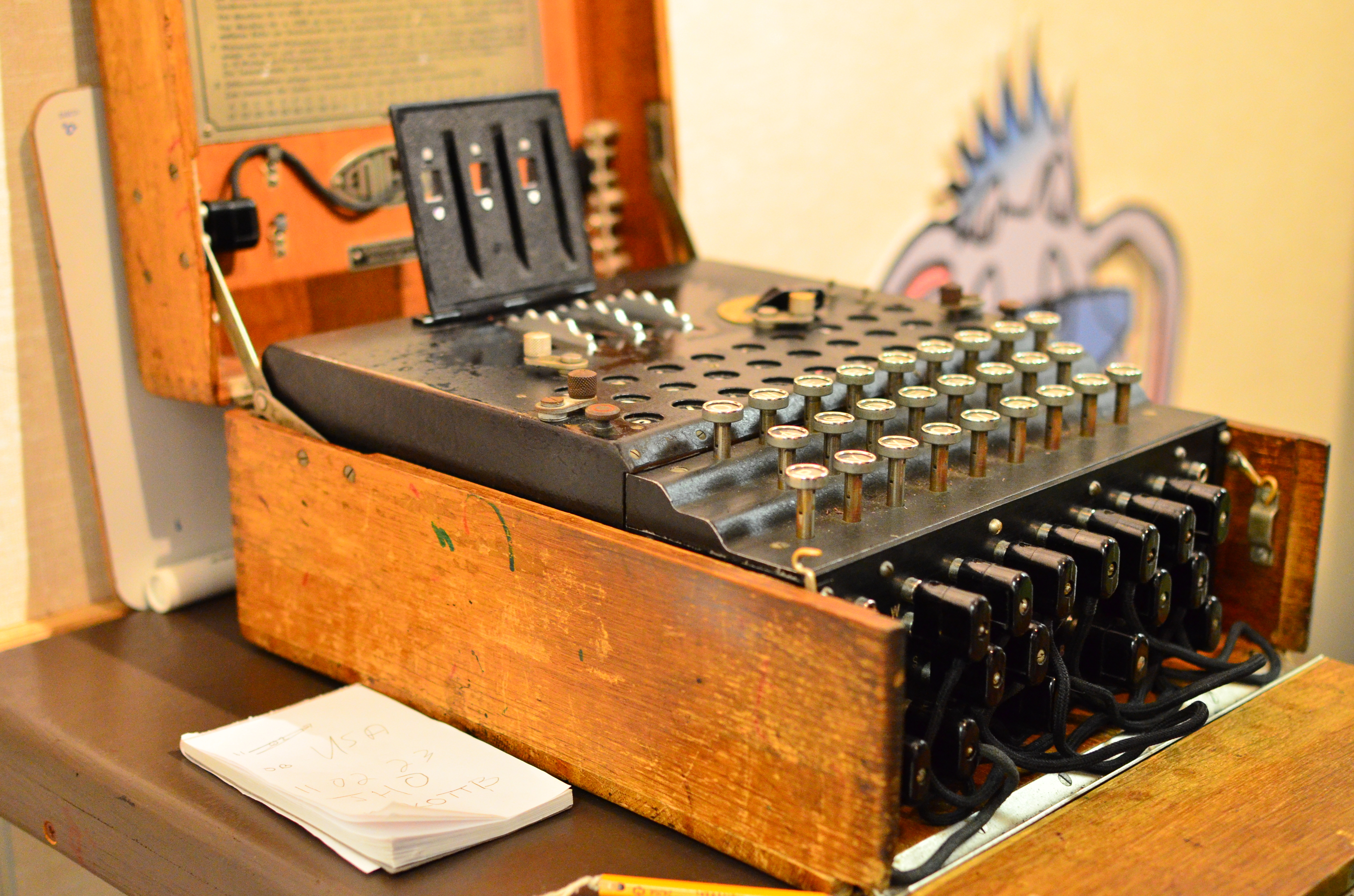 Operable Enigma Available to Make Encrypted Messages